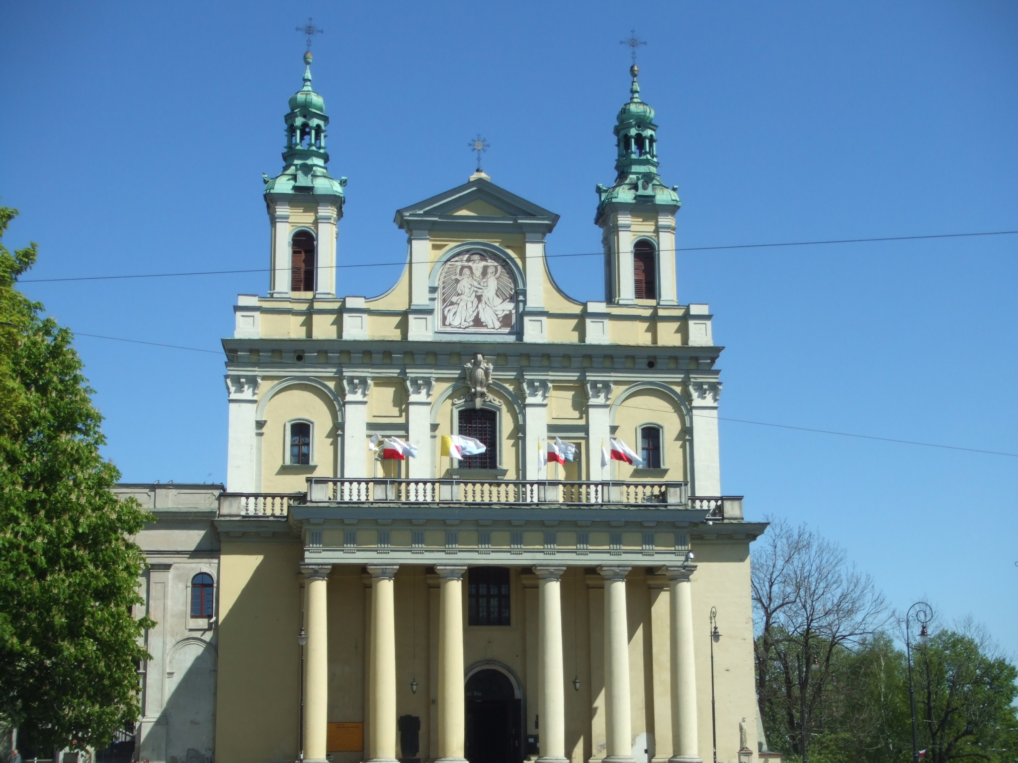 Lublin, western façade of the Cathedral.